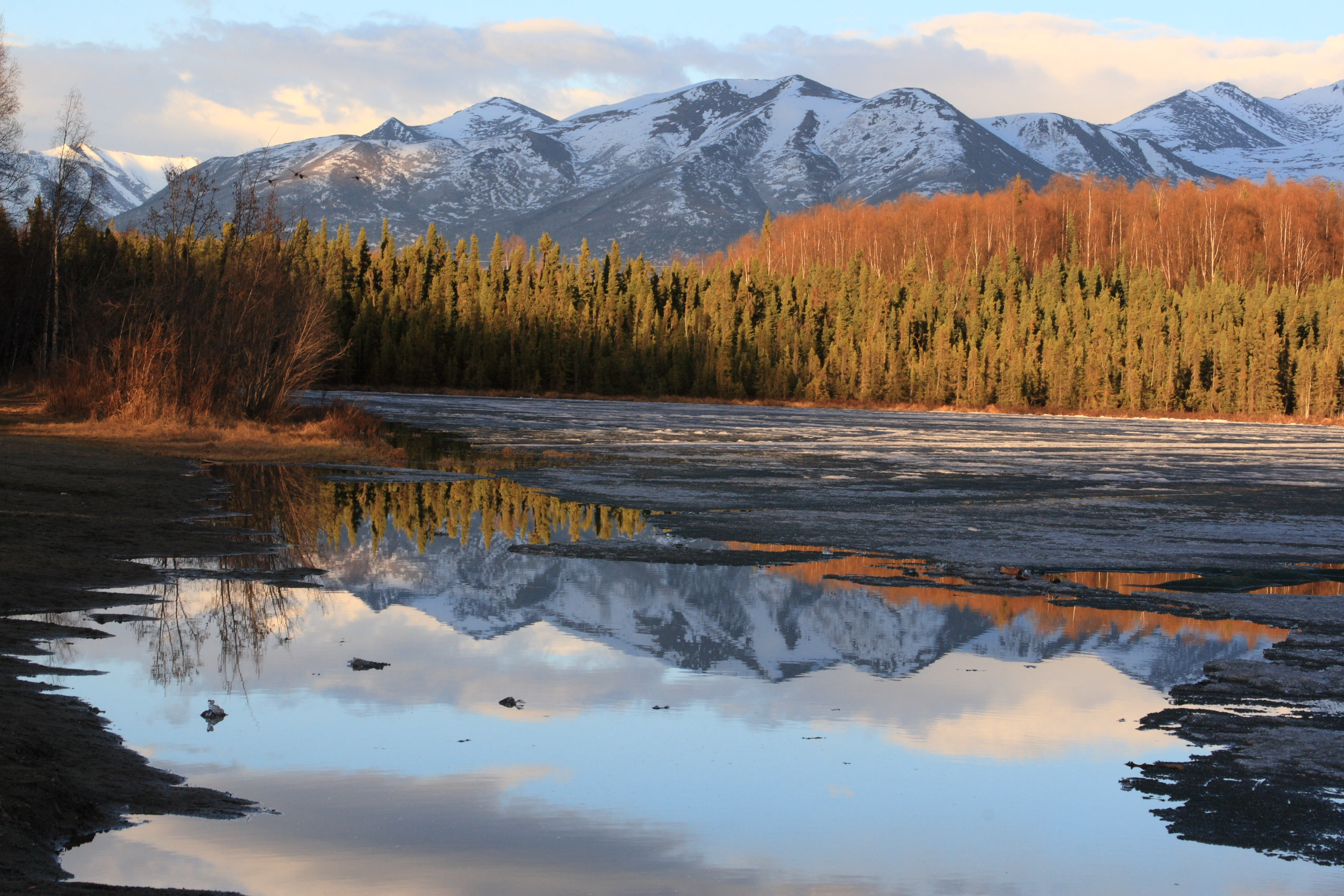 I took this photo at Goose Lake in Anchorage, Alaska in May 2010 at the end of one of our group photo shoots. The lighting was nice and we thought that Spring was on the way (remember - this is May).